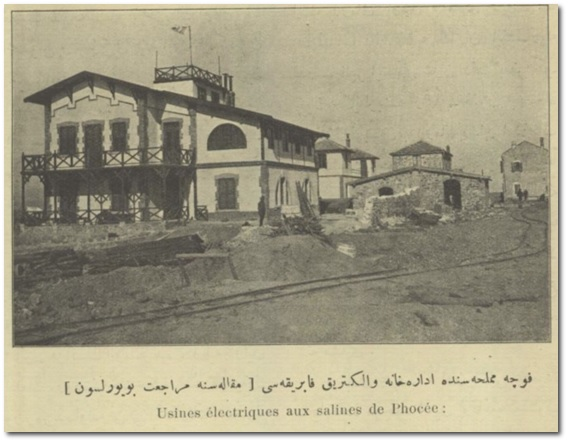 Décauville railway on the Foça saltpans, 1910